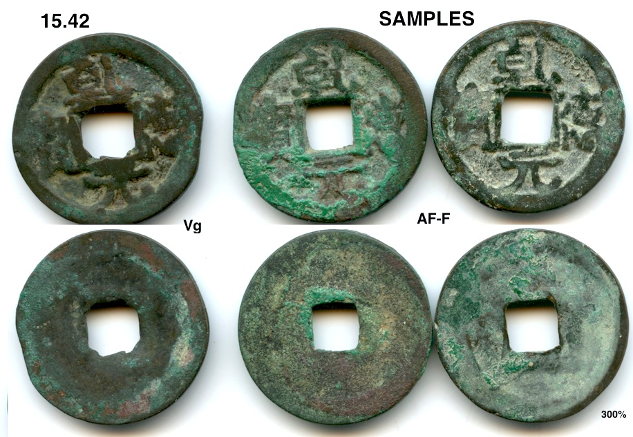 FIVE DYNASTIES / TEN KINGDOMS 907 - 960 AD PHOTO H# REIGN TITLE DESCRIPTION PRICE 15.12 Zhou Yuan tong bao Later Zhou Dynasty, Emp. Shi Zong, 955-60. (S411) VF-EF $ 20.00 15.17 Zhou Yuan tong bao: — s Later Zhou Dynasty, Emp. Shi Zong, 955-60. Note: bar below may be thick in middle, resembling downward crescent. S422 VF $ 17.50 15.42 Qian De yuan bao Former shu Kingdom: Wang Yan 919-25 S433 SAMPLES shown: Vg $8.50; AF-F $ 12.50 15.46 Xian Kang yuan bao Former shu Kingdom: Wang Yan 919-25 S434 Vg+ $ 25.00 15.80 Tang Guo tong bao Southern Tang Kingdom: Emp. Yuan Zu, 943-61, AD 959 onward; Seal script. S441 shown: Hoard EF-UC $ 10.00 15.90 Tang Guo tong bao Southern Tang Kingdom: Emp. Yuan Zu, 943-61; Li script, Variety: Small size 20-20.5mm. S444 SAMPLES shown. Hoard EF-UC $ 26.50 15.99 Kai Yuan tong bao Southern Tang Kingdom: Emp. Li Yu, 961-78; Seal script. S446 SAMPLES shown. VF $ 6.00 15.162 Yong An Yi Bai Liu Dynasty of You Zhou (Hebei), IRON 100 Cash, 32.3 mm, 14.757 gm. FD835, S-nl, HG396/4 Crude $ 1,200.00.